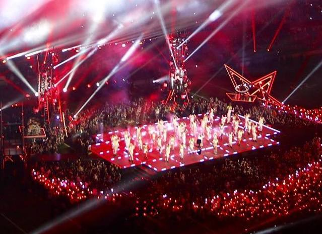 Lady Gaga performing "Bad Romance" at halftime